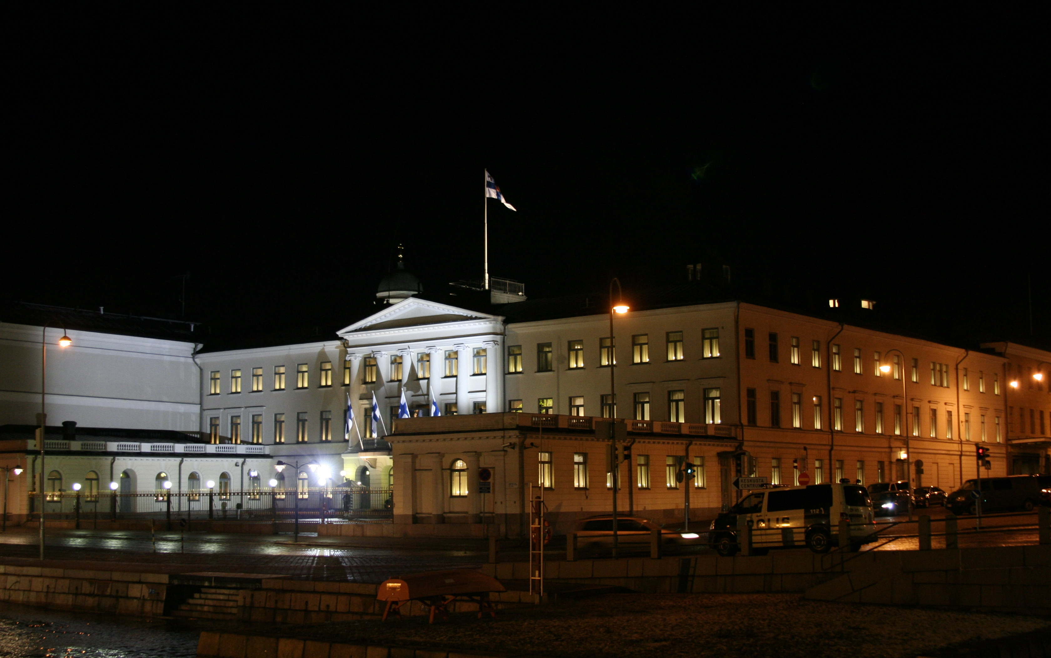 Presidential Palace, Helsinki, Finland. Photo taken during Independence day reception 2011.